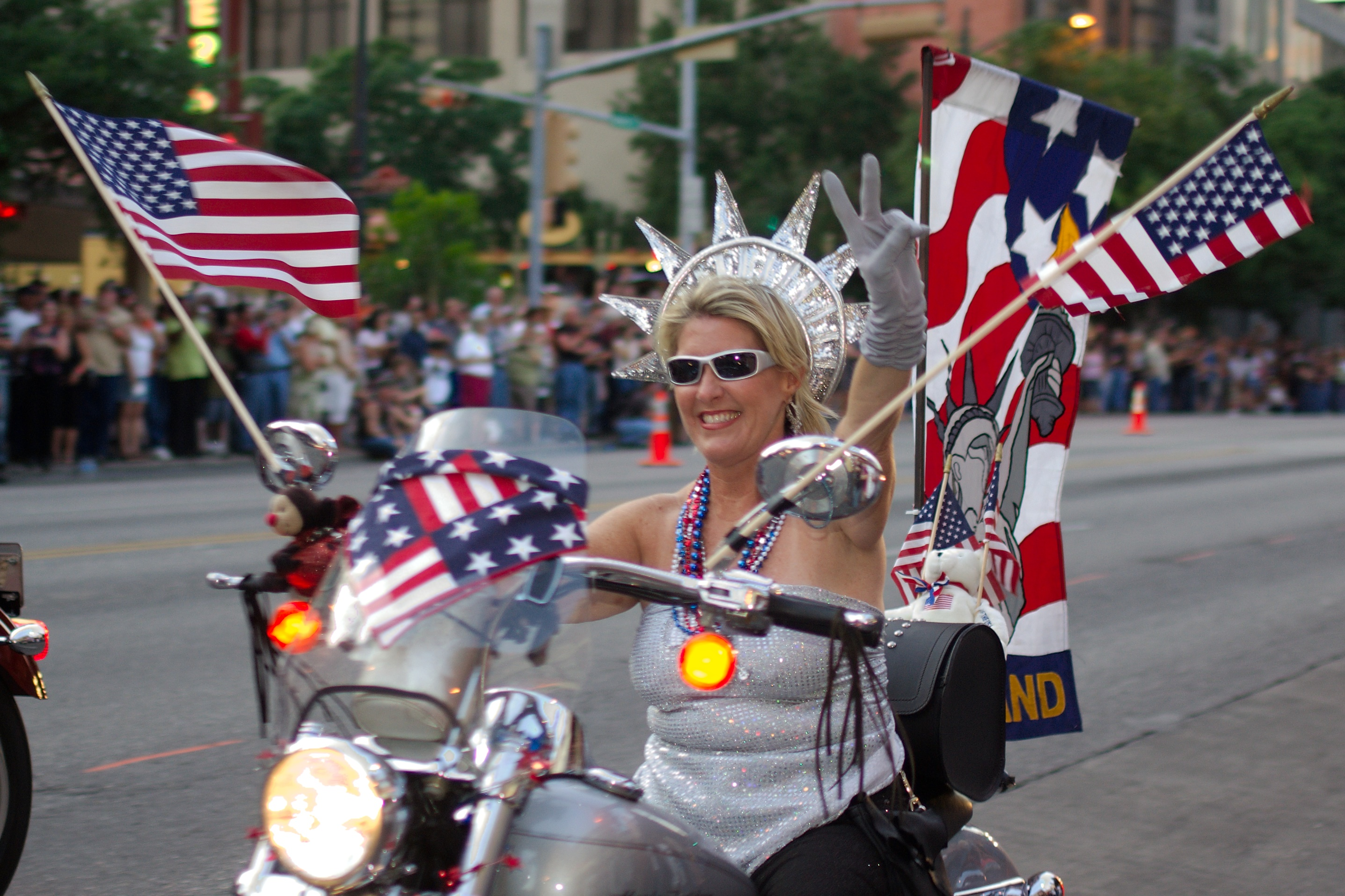 Republic of Texas Biker Rally. Patriotism